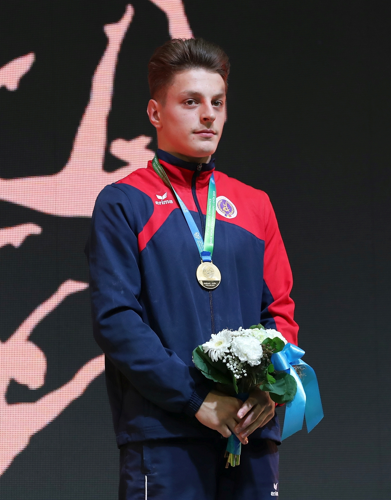 Vault victory ceremony during the boys' apparatus finals at the 1st FIG Artistic Gymnastics Junior World Championships on 30 June 2019 in Győr, Hungary. Depicted: Gabriel Burtănete.